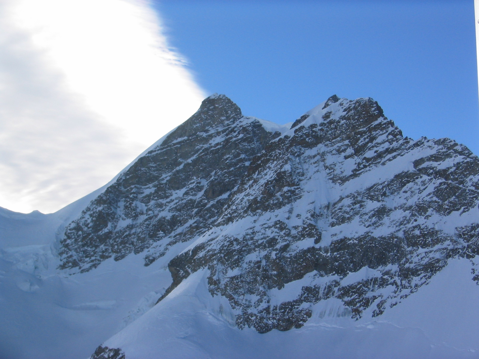 Jungfraujoch